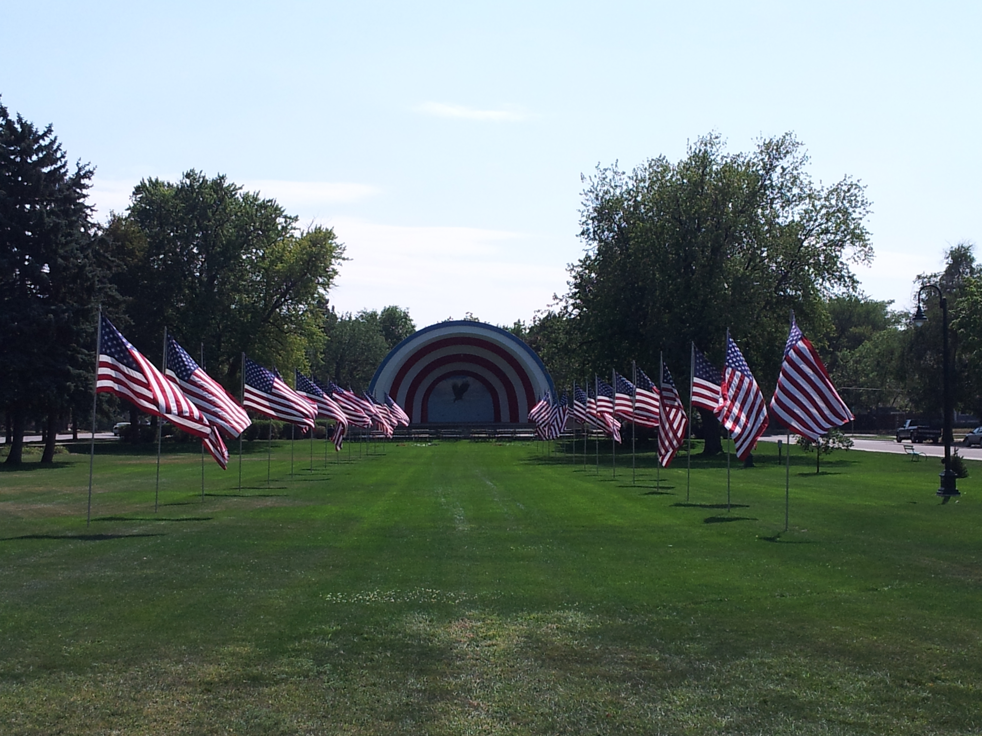 Campbell Park Historic District of Huron